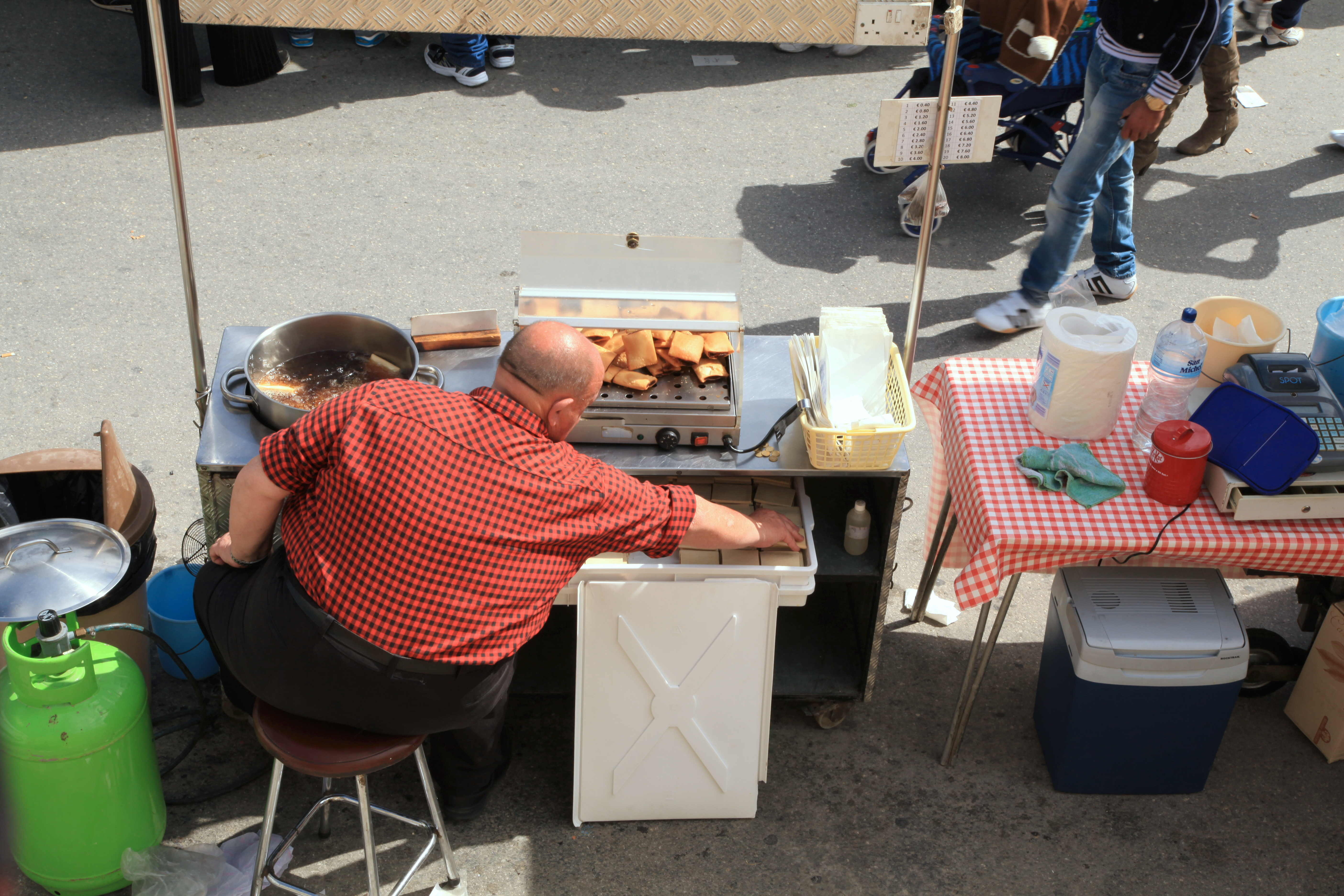 Street market, Xatt is-Sajjieda in Marsaxlokk, Malta